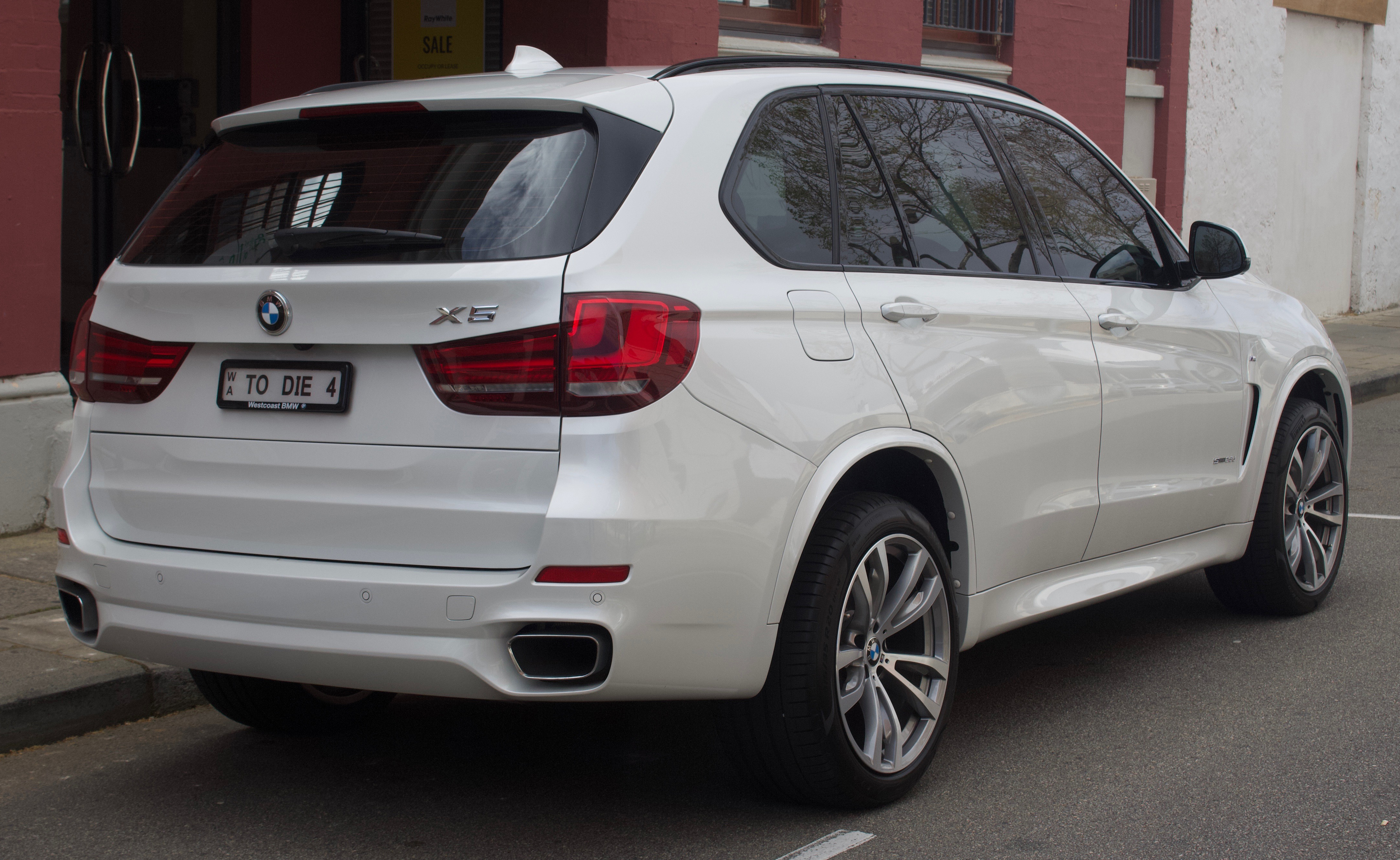 2013-2018 BMW X5 (F15) sDrive25d wagon. Photographed in Fremantle, Western Australia, Australia.